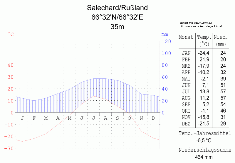 Salekhard, Yamalo-Nenets Autonomous Okrug (Russia). Climate chart in the format by Walther and Lieth. Metric, °Celsisus and millimeters. Made with Geoklima 2.1.